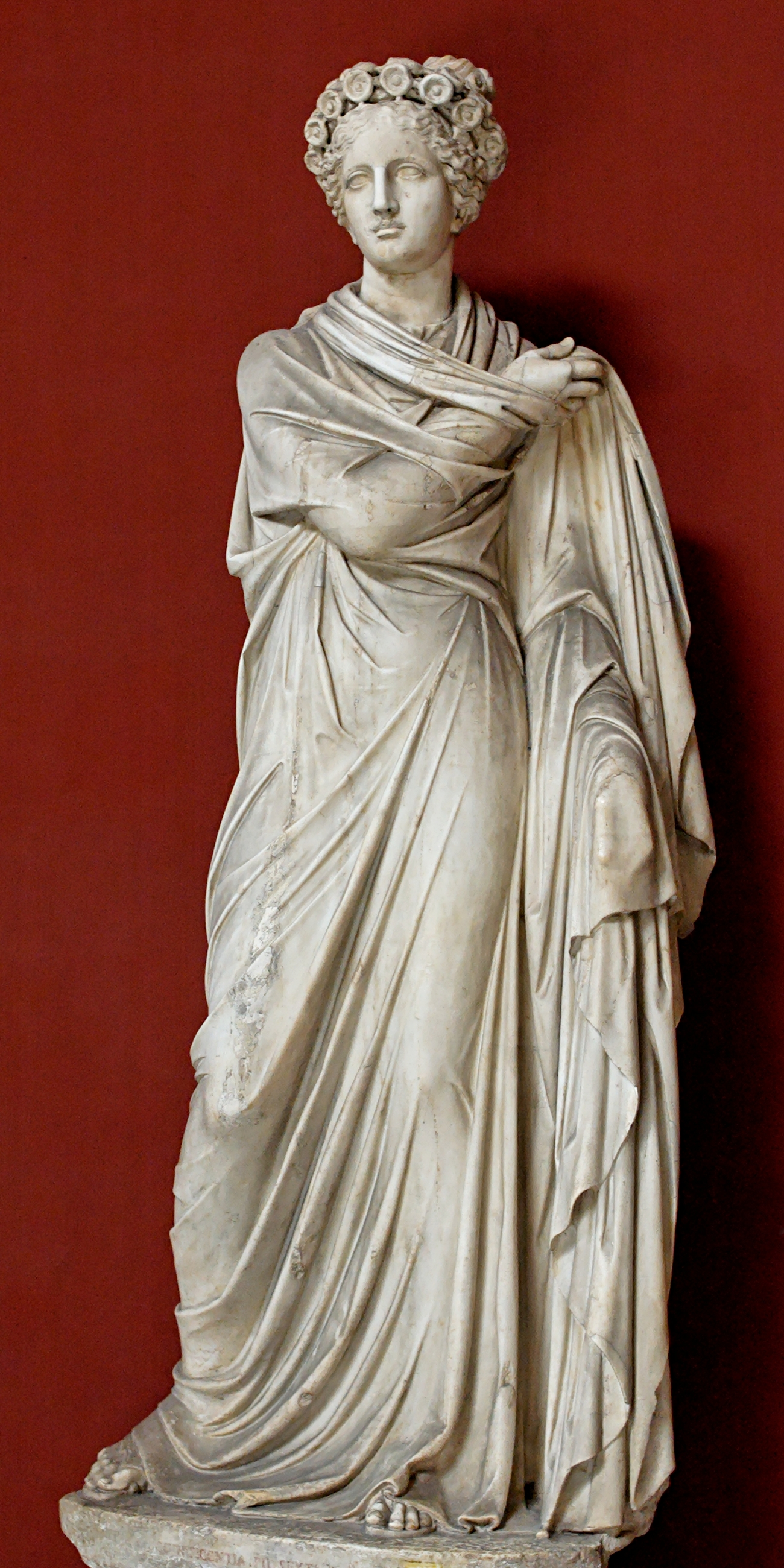 Polyhymnia, Muse of sacred song. Marble, Roman artwork from the 2nd century CE.